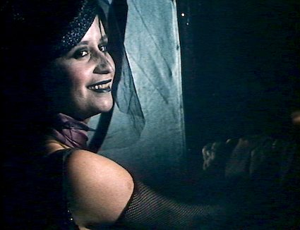 Melise Semlyén at the auction of Baron Zedlitz